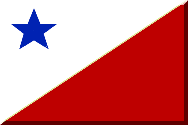 Fantasy football flag for Vojvodina teams